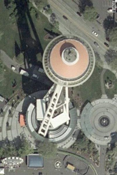 Space Needle as viewed by satellite, courtesy of USGS